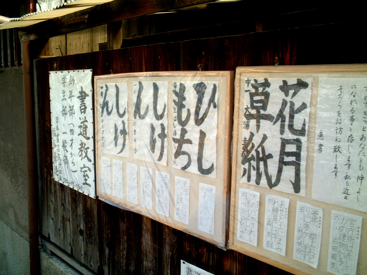 cramming school of calligraphy